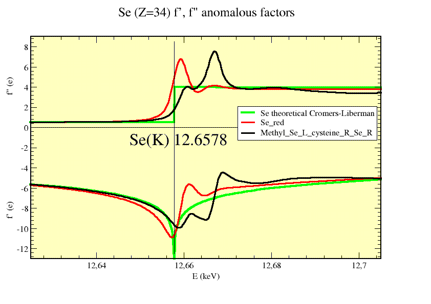 Comparison of Se anomalous factors between theoretical values and two experimental ones depending of the chemical environment.